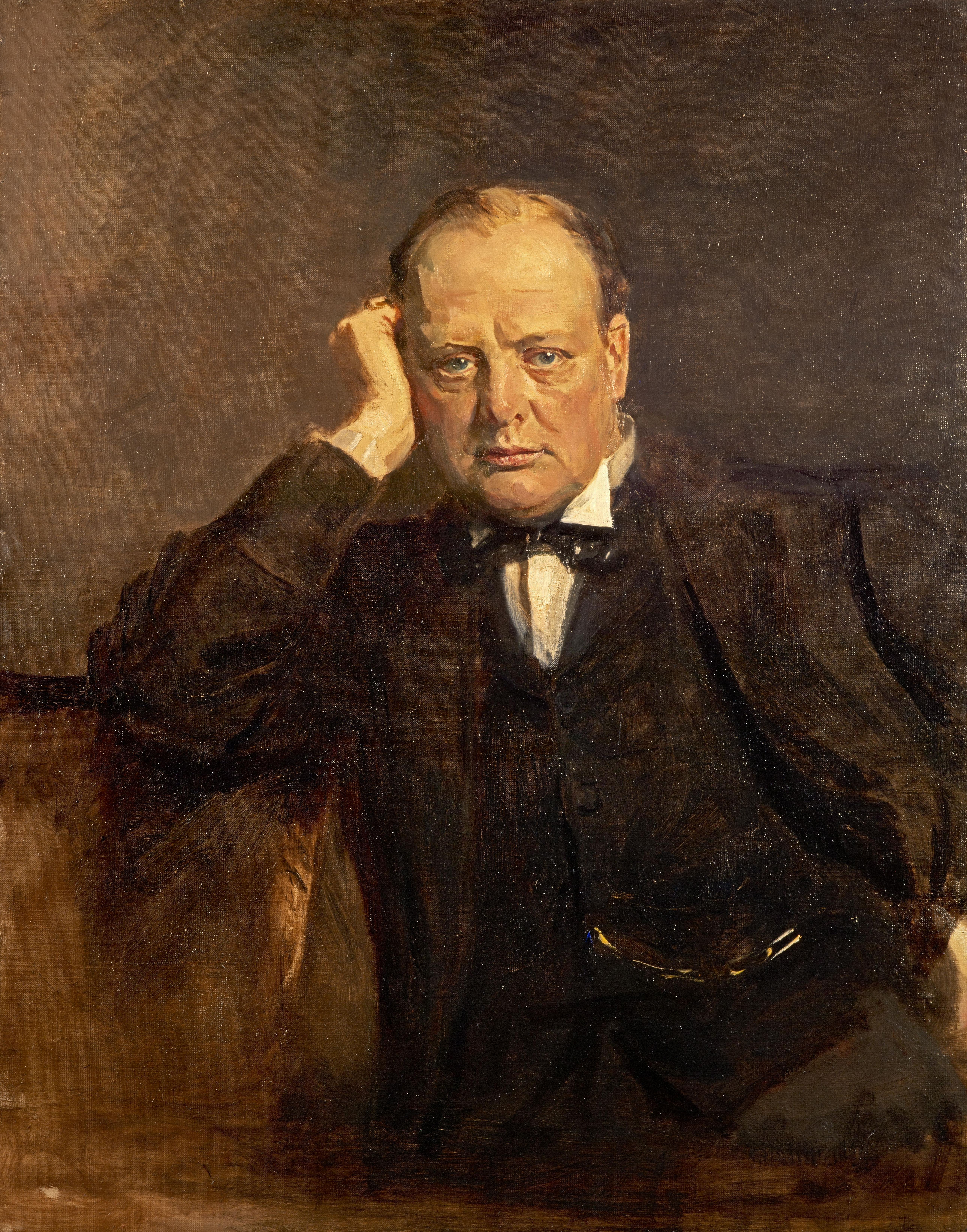 This portrait was completed shortly after the First World War in which Churchill served successfully as First Lord of the Admiralty, Minister of Munitions and Secretary for War with responsibility for demobilisation. The most vigorous and highly finished among a series representing contemporary statesmen, the picture was painted in preparation for his great commission ‘Statesmen of the Great War’. Churchill was a Member of Parliament for Dundee from 1908-22. He went on to serve as Prime Minister during the Second World War from 1940-45.